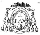 Order of Saint Benedict coat of arms, from a print in a book published in 1867